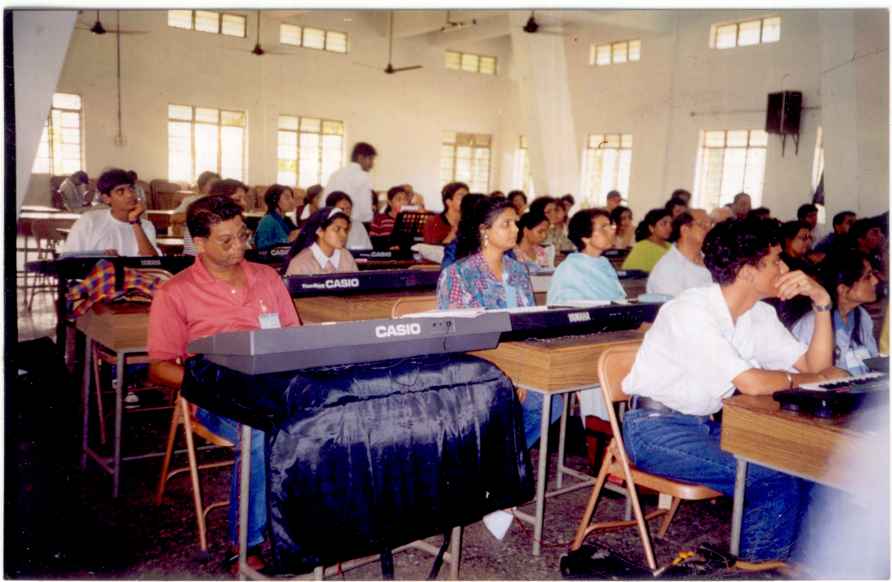 A batch of students learning with the Boss School of Music (Mazagoan, Mumbai, India)